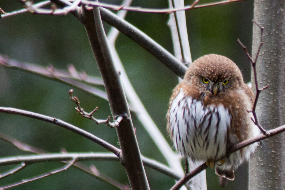 This is a picture of a Northern Pygmy (Glaucidium) owl taken in Oregon.